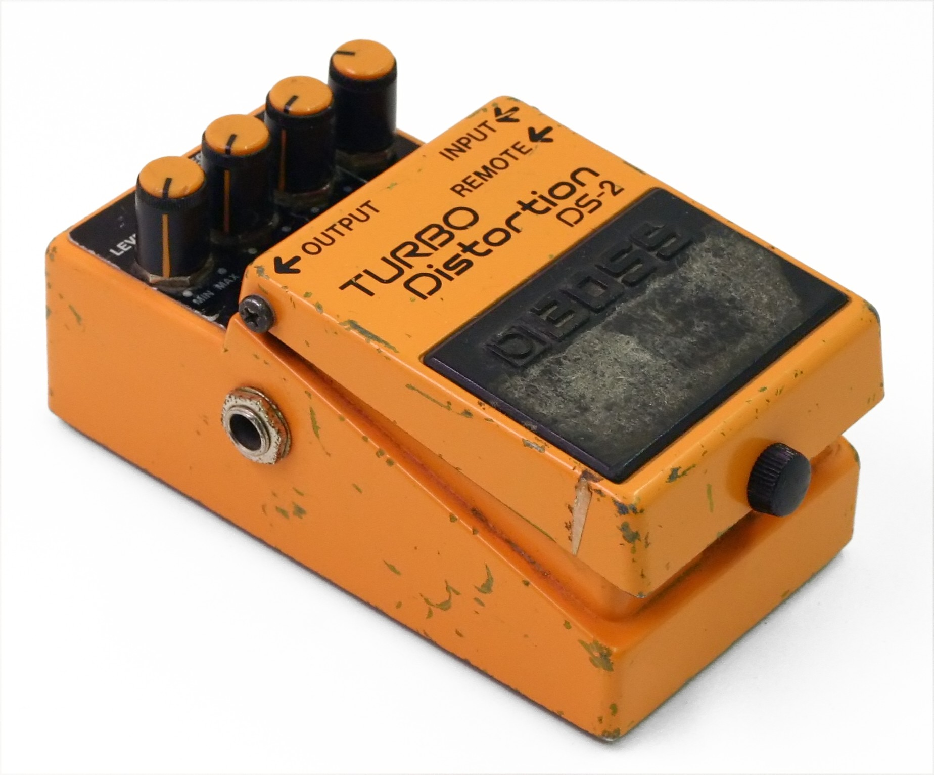 Well used Boss Turbo Distortion guitar pedal.